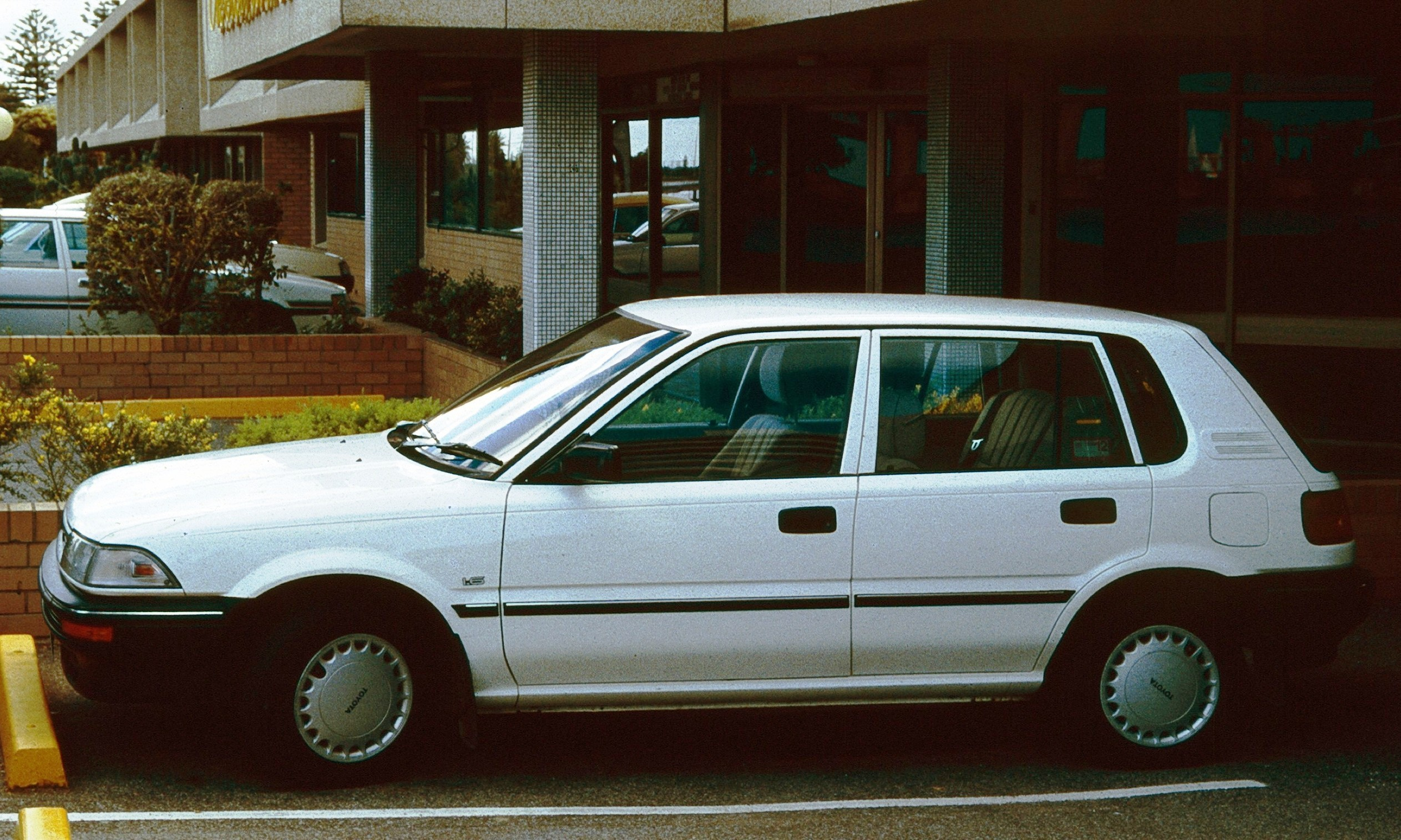 Toyota Corolla 5 door hatchback